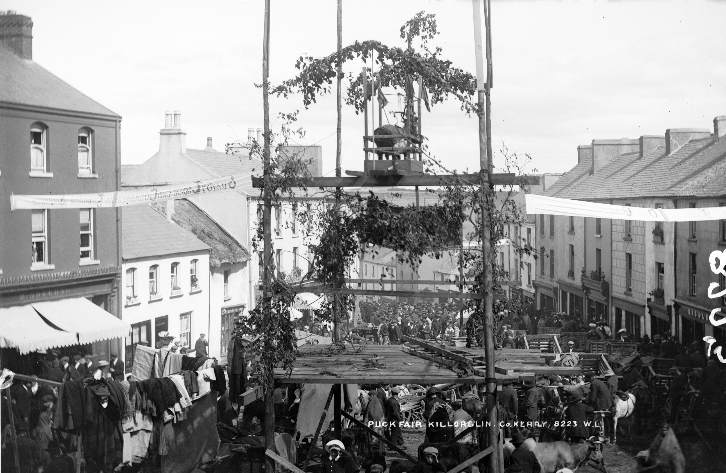 Puck Fair in full flight in this photo with King Puck (An Puc Rí) installed on his "throne". Have recycled this Munsterset photo, as believe it or not, ne'er a comment has ever been made on it - very sad state of affairs altogether. And location in Killorglin is approximate, so any input for our map would be very welcome... Date: 1900?? NLI Ref.: L_CAB_08223